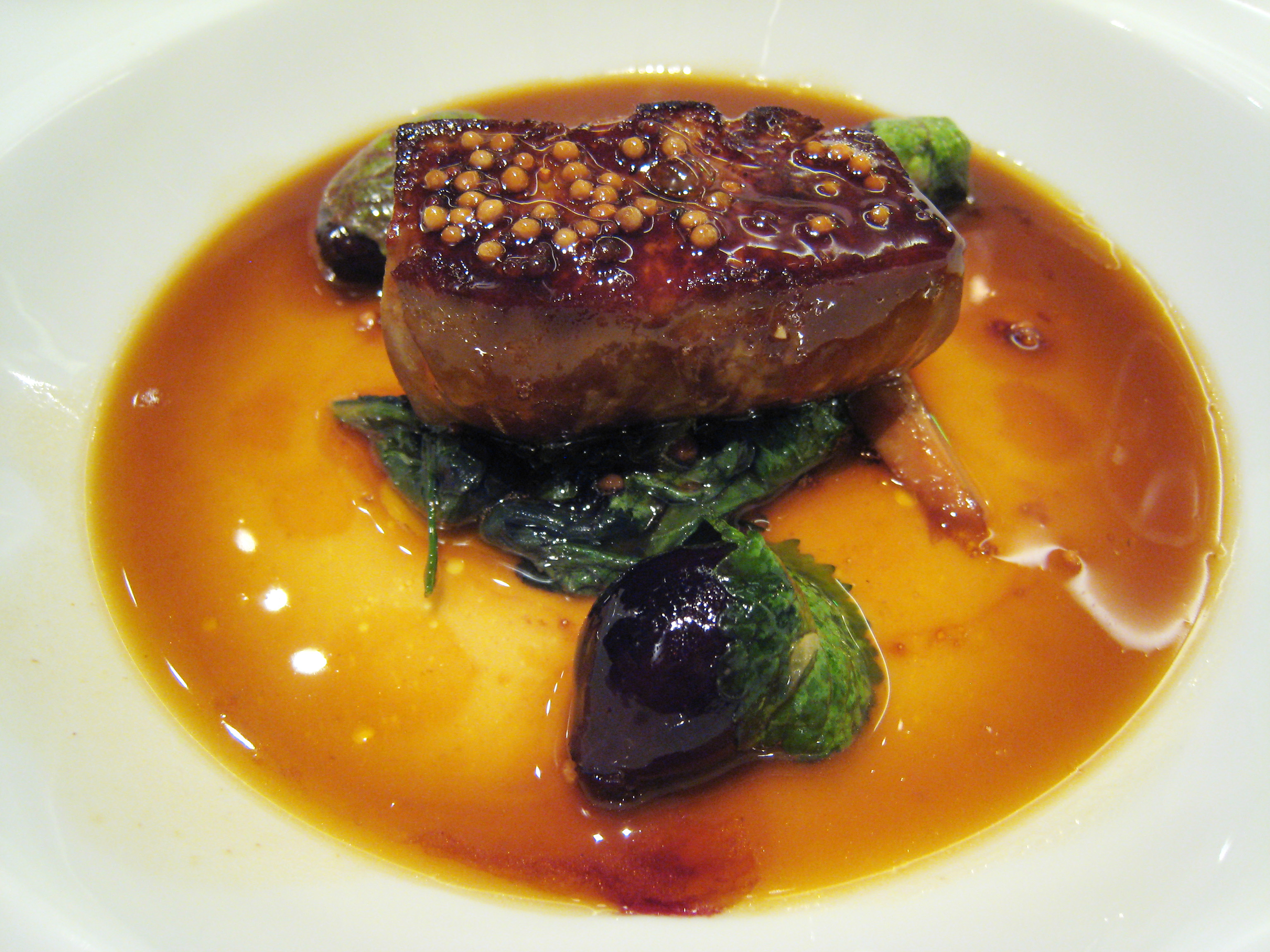 Foie gras "en cocotte" with mustard seeds and spring onions in duck juice.